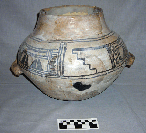 Jemez Black-on-white jar with two downward-tilted handles. Note fire cloud in lower part of jar. Restored.